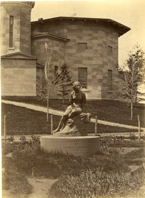 Early photo of the Sabrina statue on the Amherst College campus.